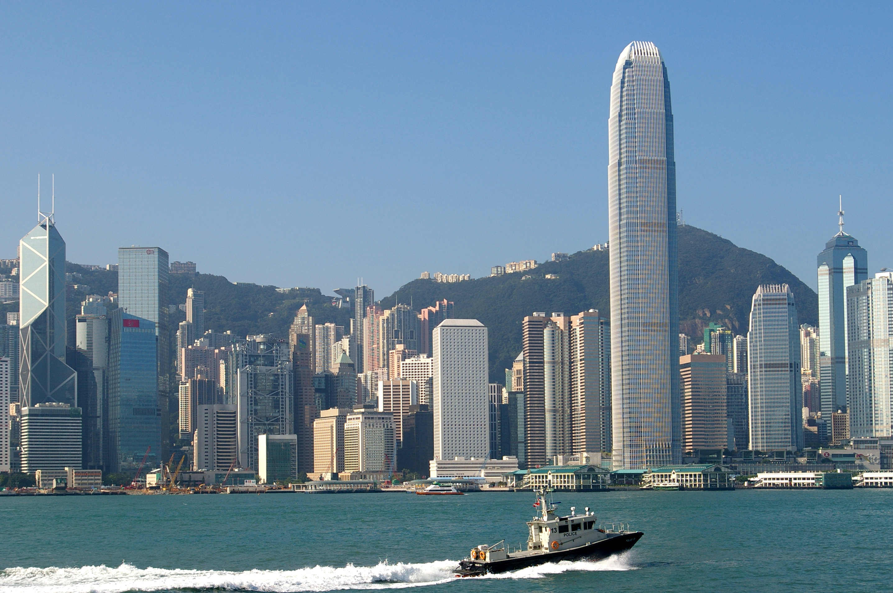 Hong Kong island seen from Kowloon